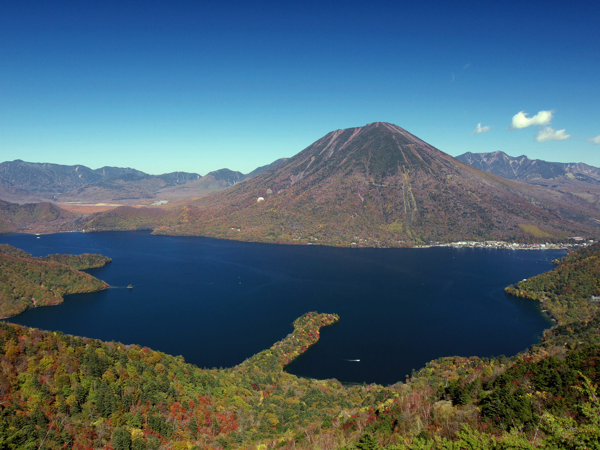 Japan: the Nantai volcano and Chūzenji lake in Nikkō, from mount Hangetsu (Tochigi prefecture).